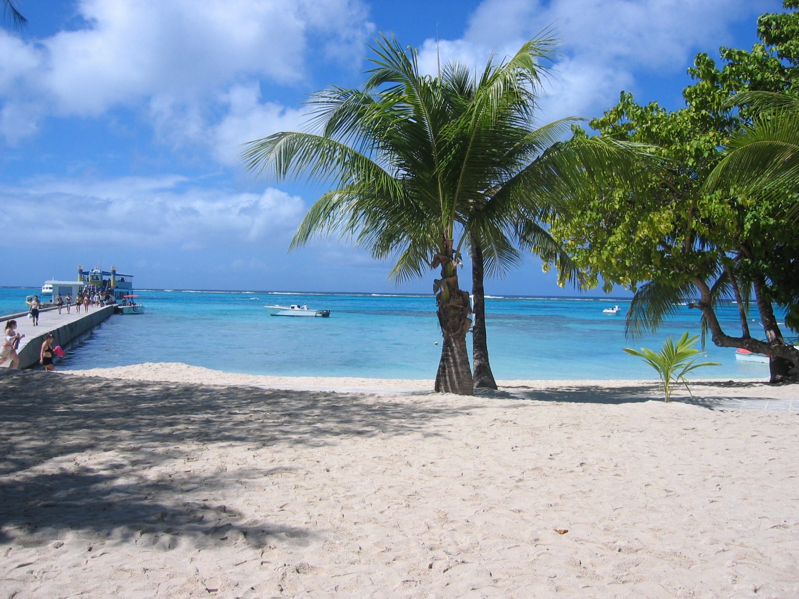 Beach and pier on Mañagaha island